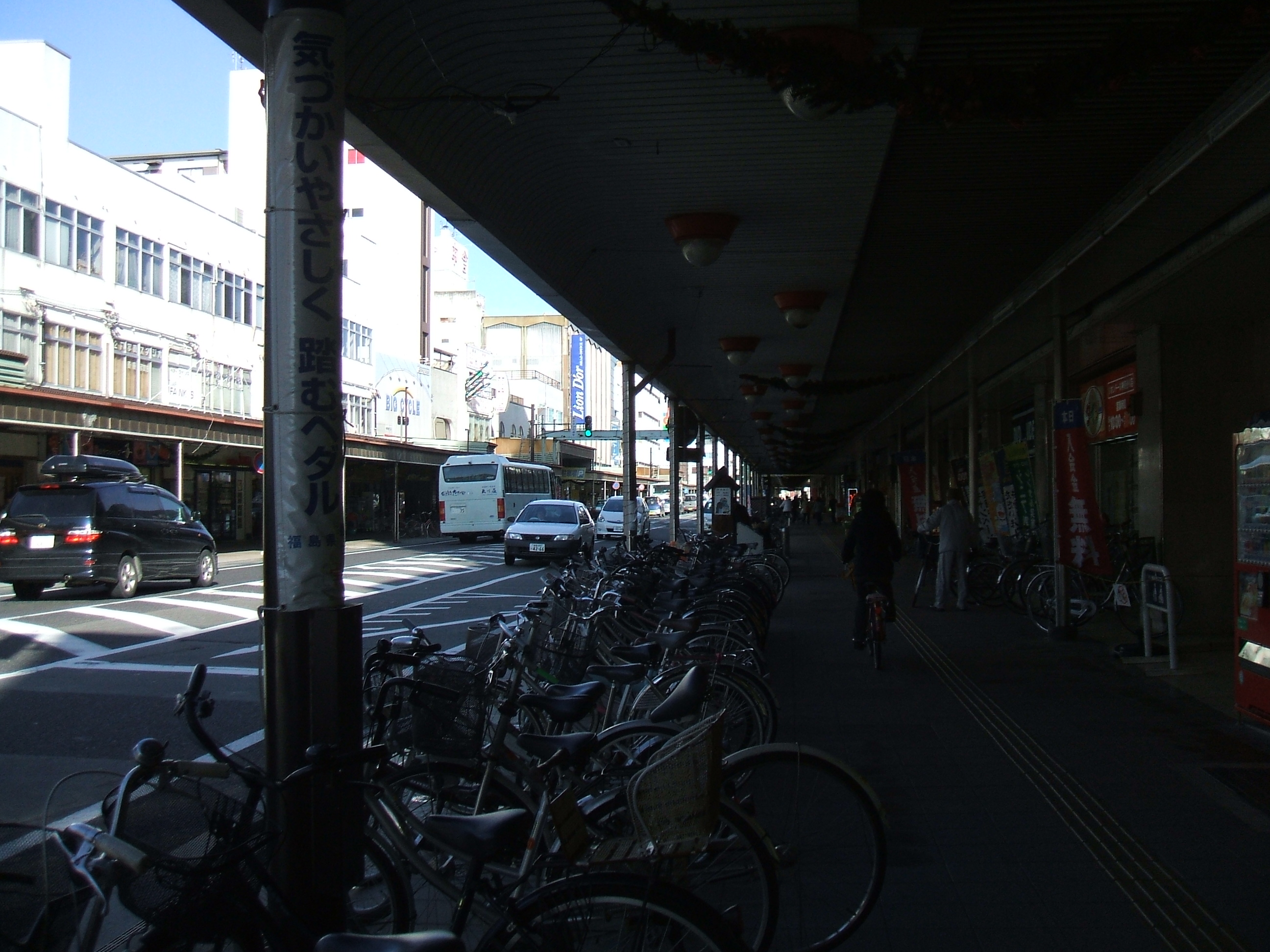 A landscape of "Shinmei-Dori" Street of Aizuwakamatsu, Fukushima. This is taken from inside of an arcade.